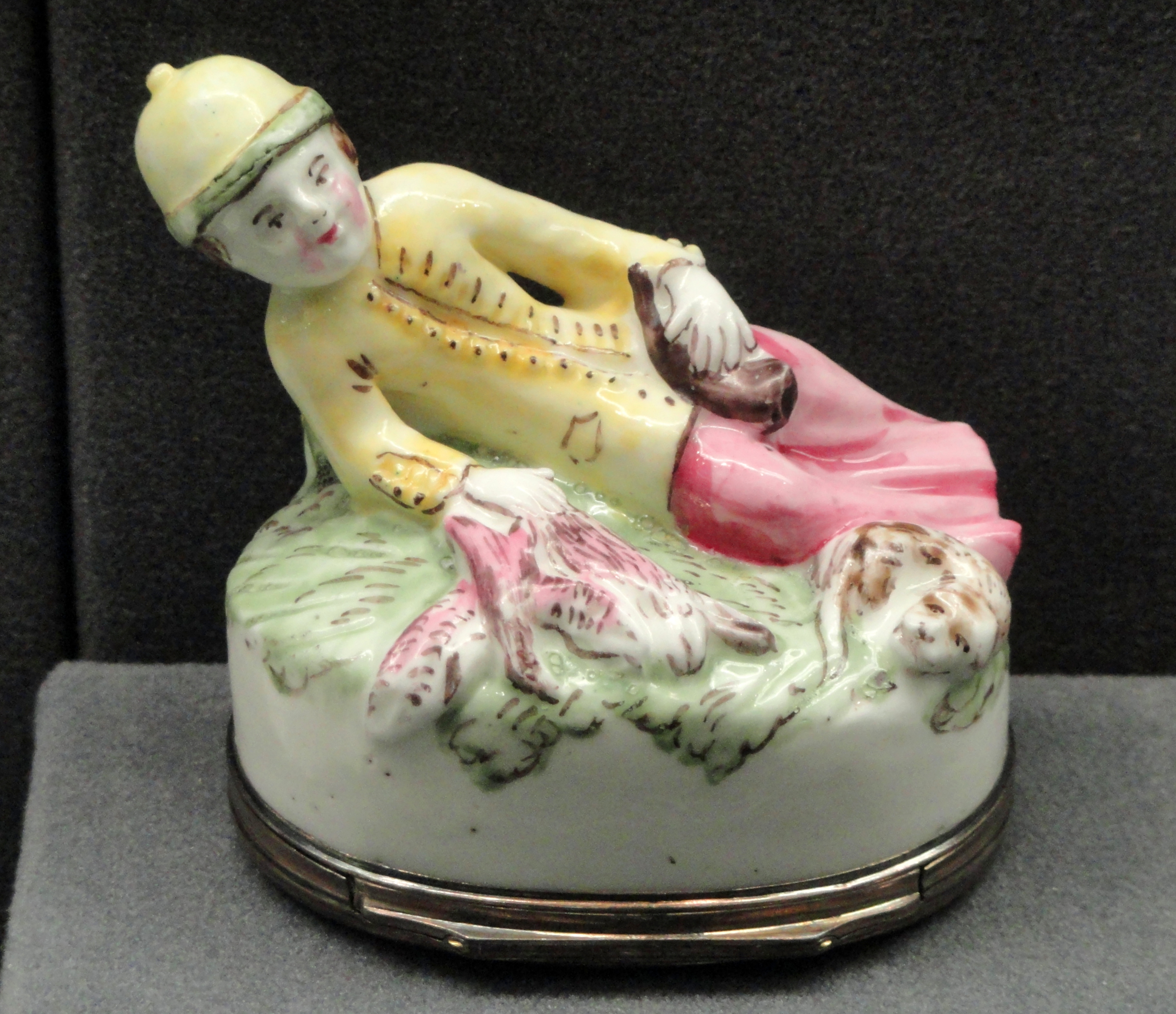 Exhibit in the Gardiner Museum, Toronto, Ontario, Canada. This artwork is in the public domain because the artist died more than 70 years ago.